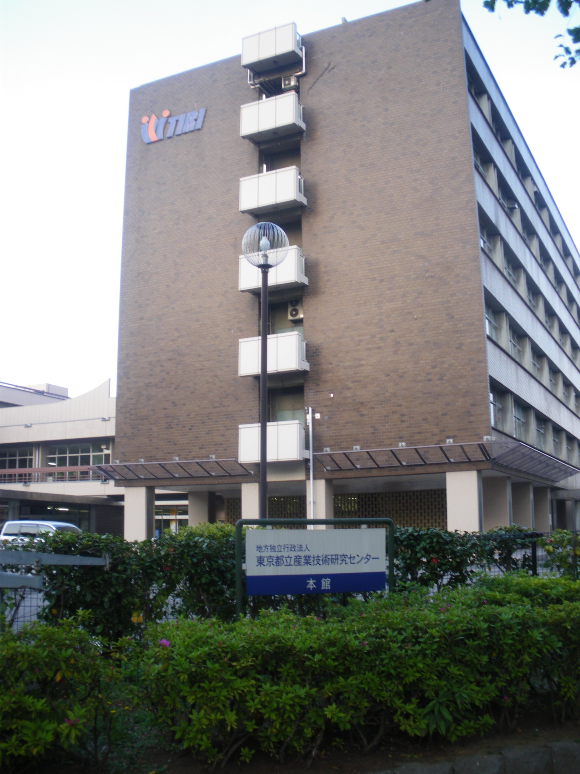 Head office of Tokyo Metropolitan Industrial Technology Research Institute(Nishigaoka,Kita,Tokyo)